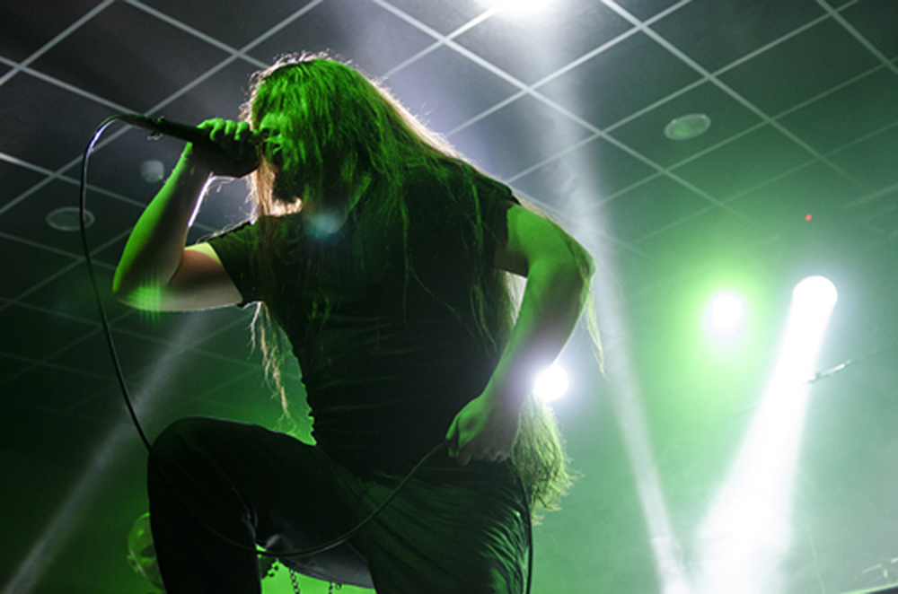 Wormed Live